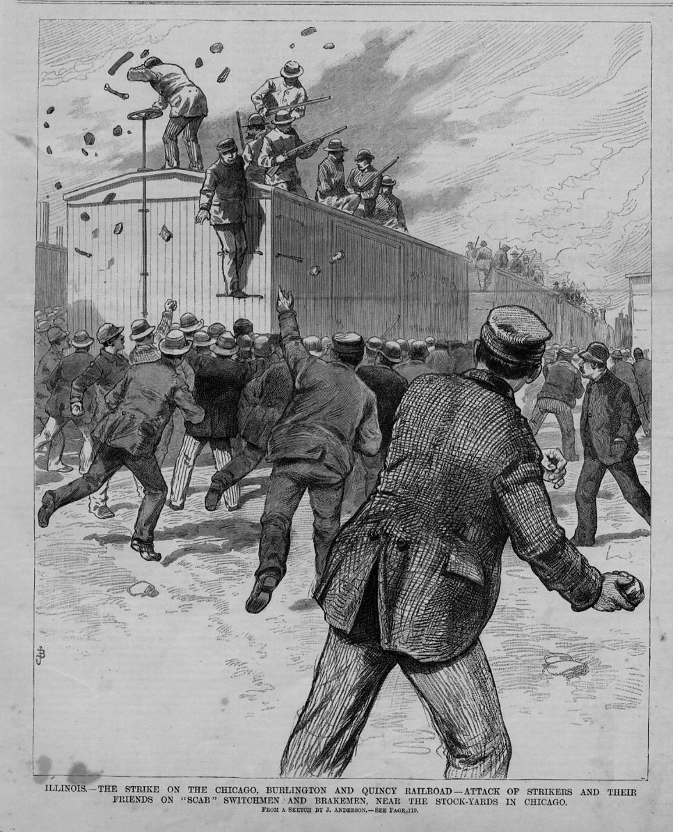 Front cover illustration from Frank Leslie's Weekly Newspaper of the strike on the Chicago, Burlington, and Quincy Railroad of 1888 which depicts that attack of strikers and their friends on "scab" switchmen and brakemen near the stockyards in Chicago, Illinois.